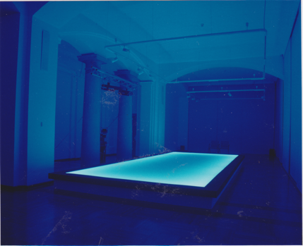 Dynamic Light/-Sound-Installation of Brigitta Malche in the Museum "Galerie Stifterhaus" in A-Linz, 1994